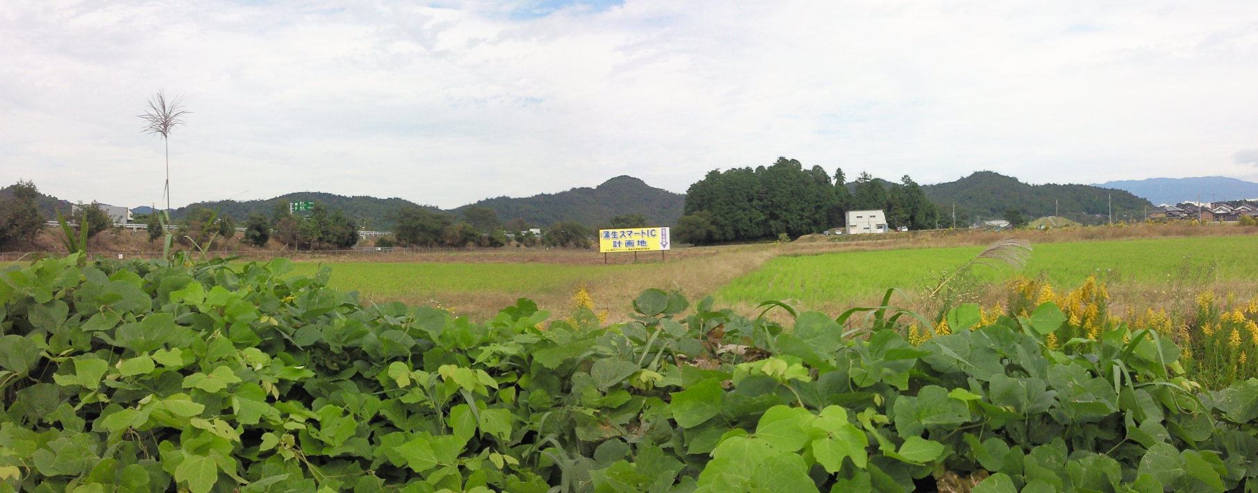 Construction site of Gamo Smart Interchange on the Meishin Expressway